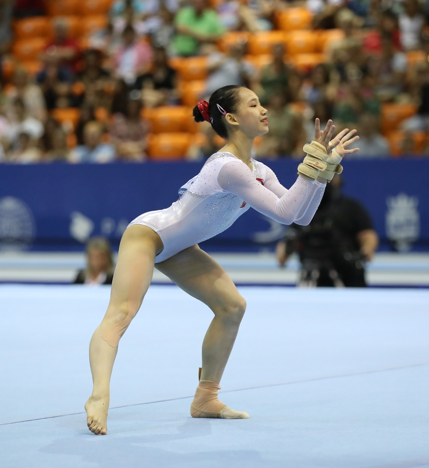 Floor exercise during the girls' apparatus finals at the 1st FIG Artistic Gymnastics Junior World Championships on 30 June 2019 in Győr, Hungary. Depicted: Yushan Ou.